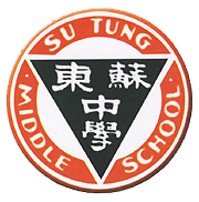 The School Badge of the Su Tung Middle school of Medan, Sumatra, Indonedia.